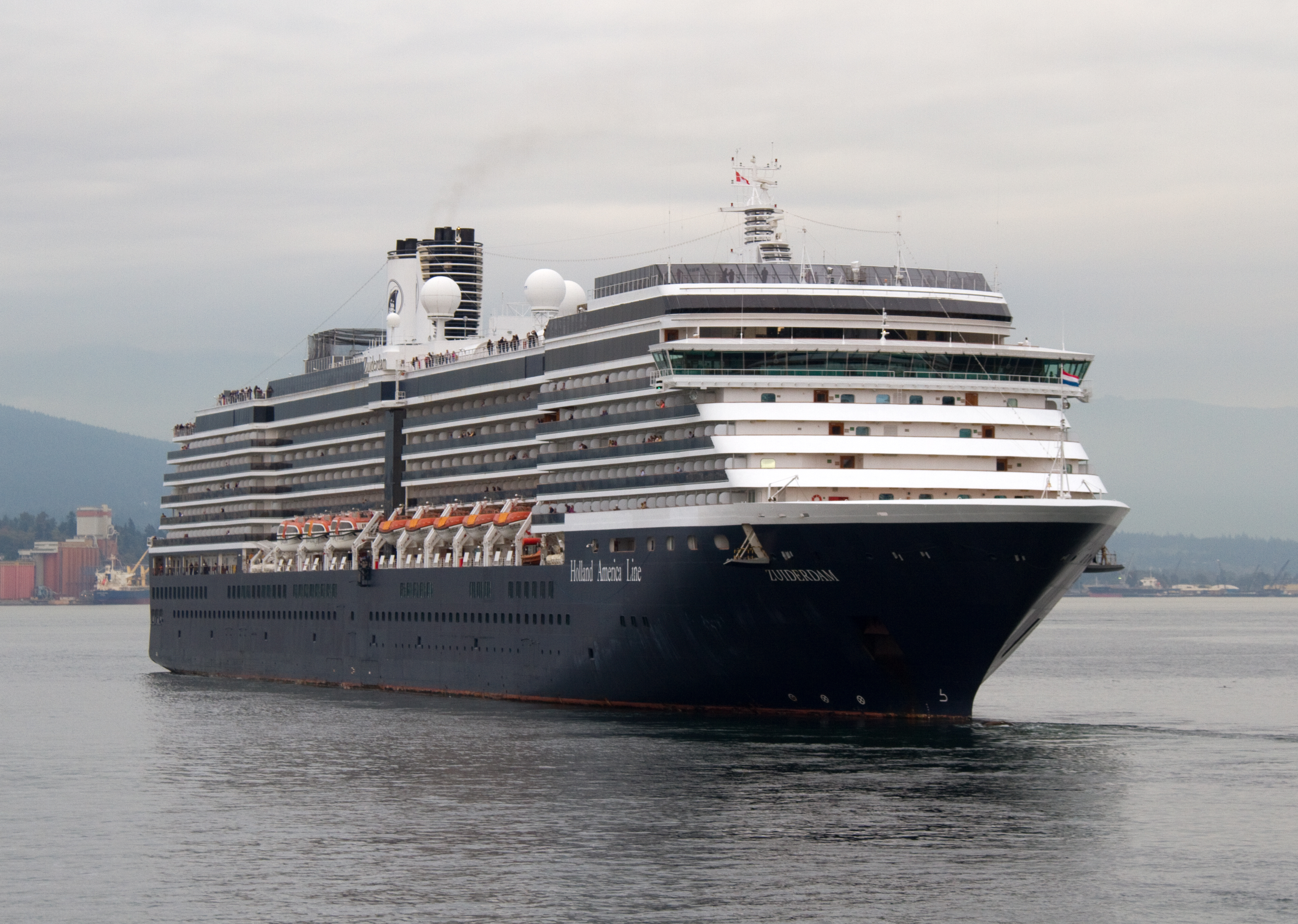 Zuiderdam in Gastown, Vancover